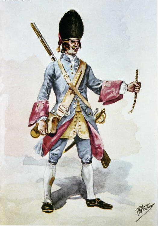 Portuguese Army Grenadier in 1740. Painting by Artur Ribeiro